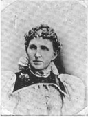 Isabel Grimes Richey